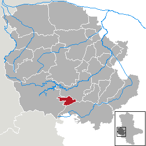 Allrode in Saxony-Anhalt - District Harz